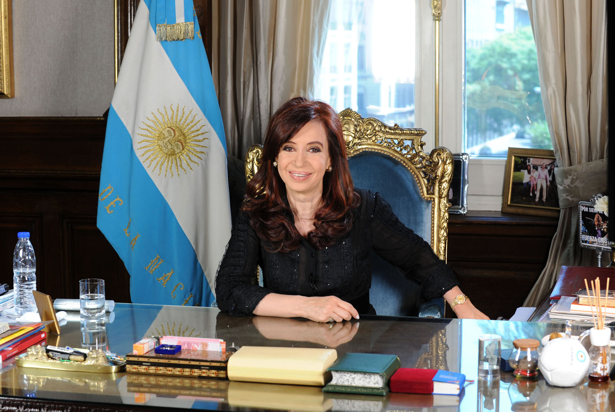 New Year Message of President Cristina Fernandez de Kirchner.